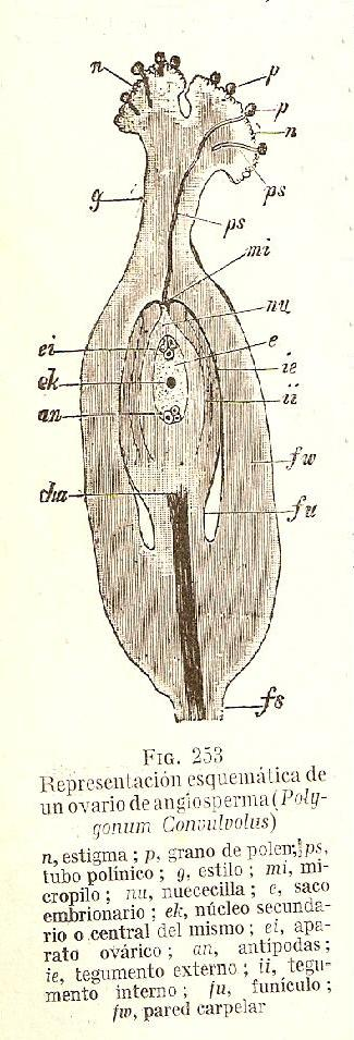 Ovarium of an angiosperm, Botánica aplicada a la Farmacia, Ed.Labor, p.254 1926